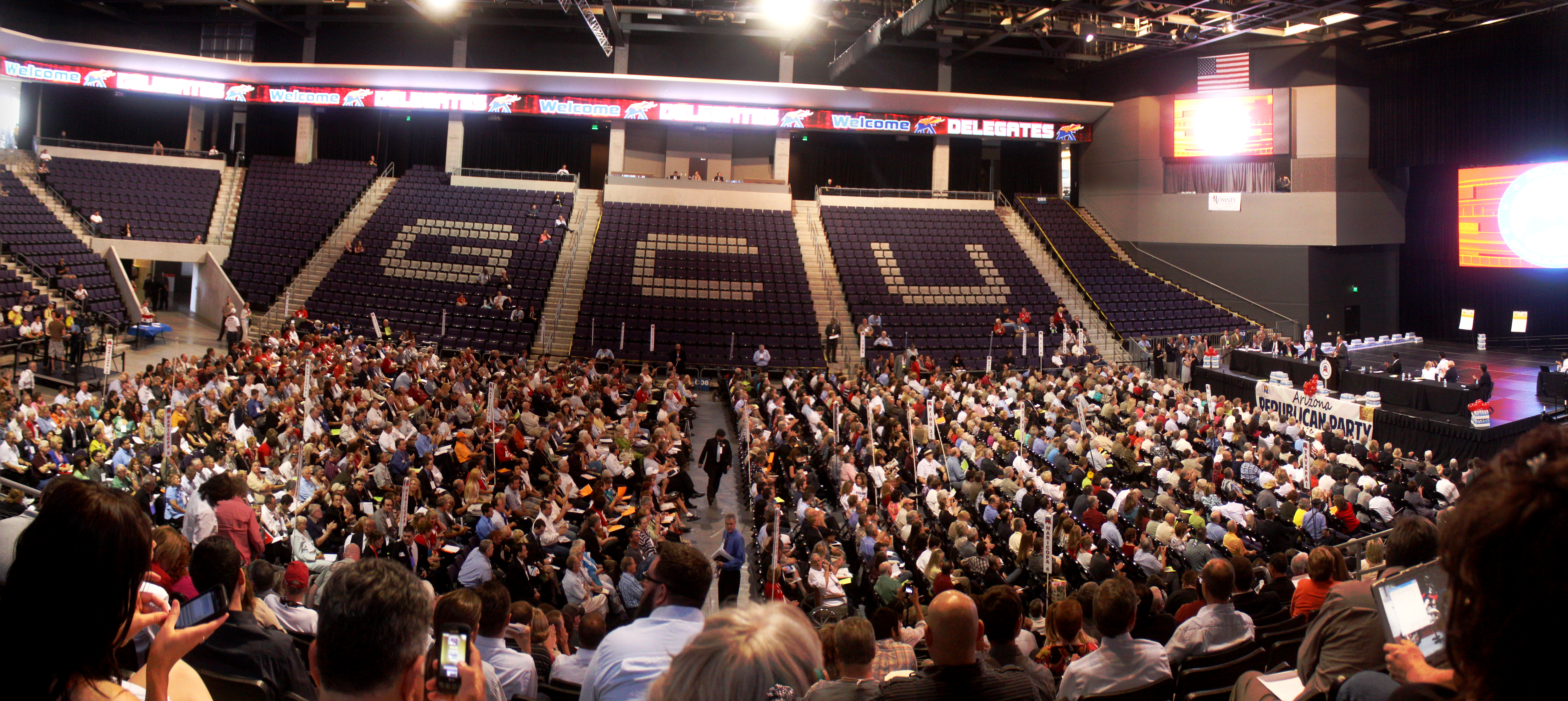 The 2012 Republican state convention in Phoenix, Arizona on May 12, 2012.